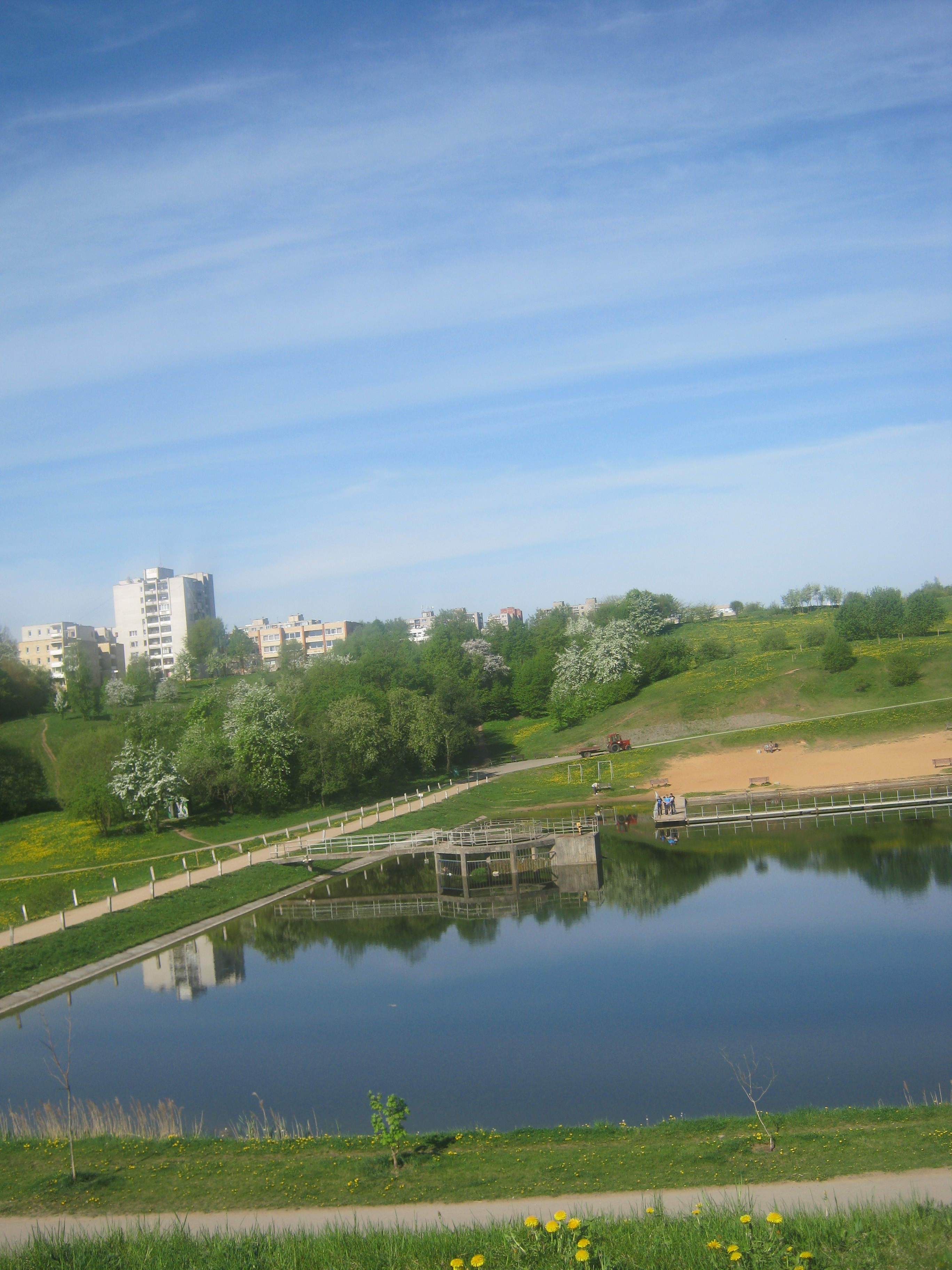 Jonava